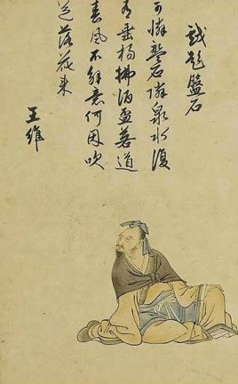 Tang dynasty poet Wang Wei (699-759).